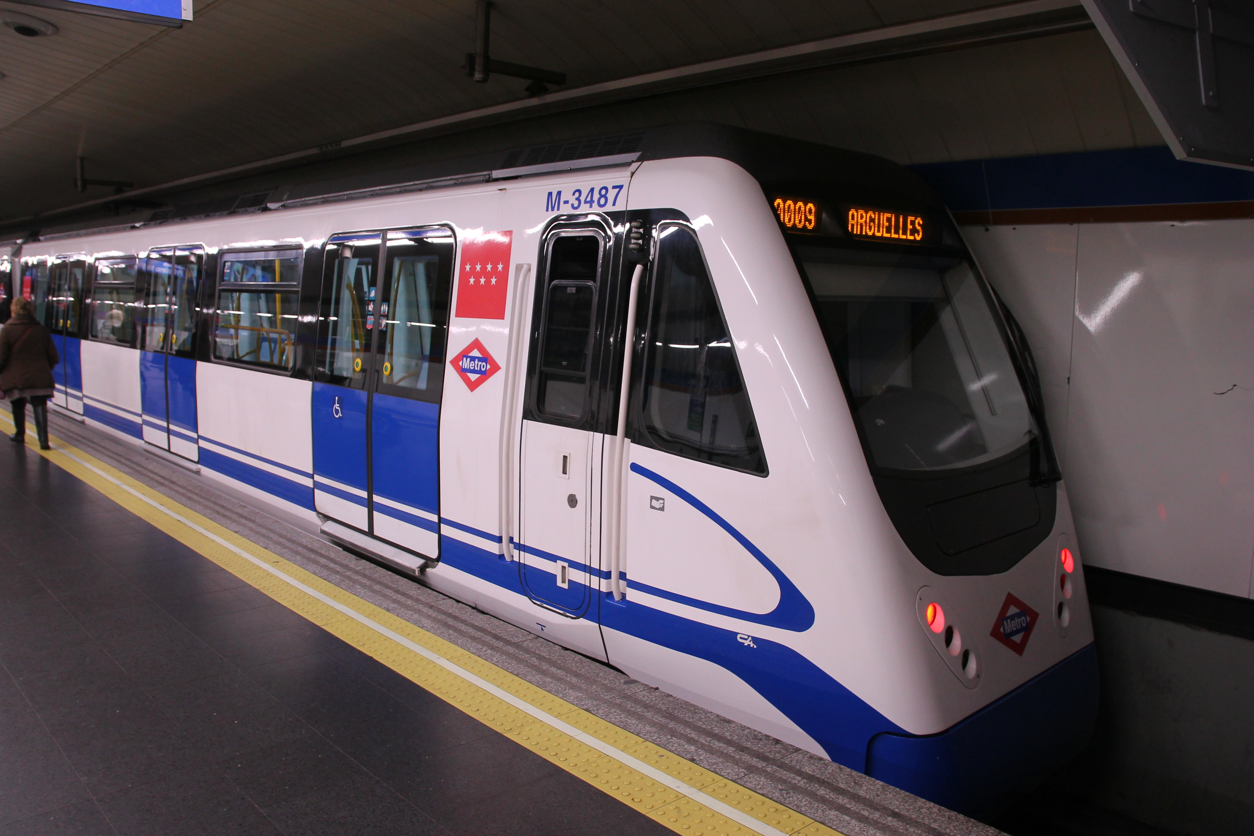 Estación de Argüelles